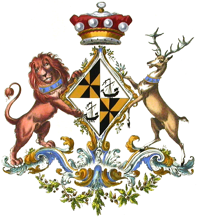 Source: Baronagium Genealogicum, 1764